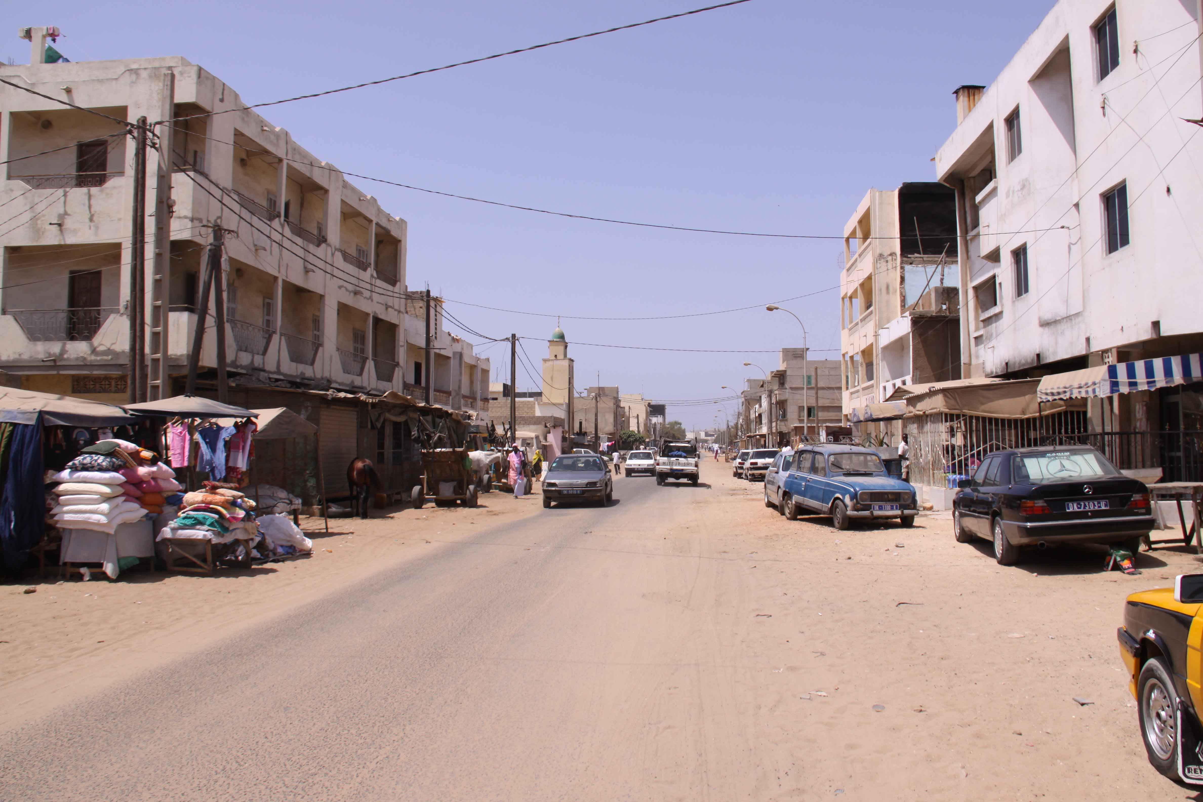 see filename. This file contributes to Share Your Knowledge.